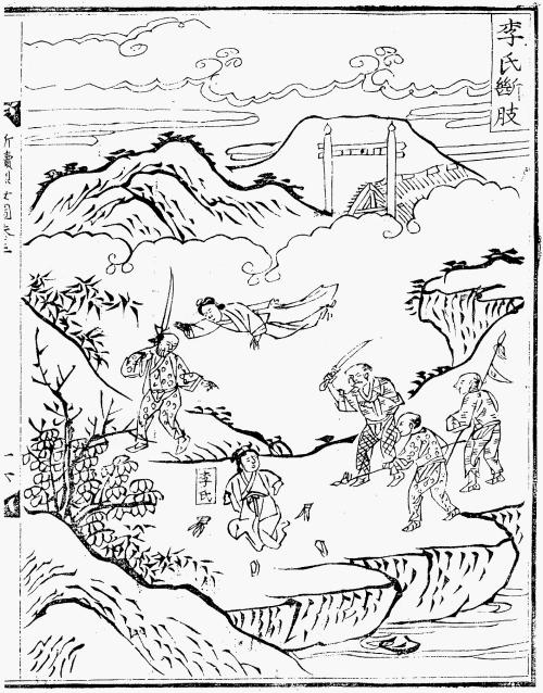 In this illustration from the Dongguk Sinsok Samgang Haengsil-do, an illustrated book of Confucian morality tales printed by the Early Modern Korean state to inculcate Neo-Confucian values upon the general population, a woman surnamed Yi chooses to lose her hands and feet rather than her chastity by being raped.